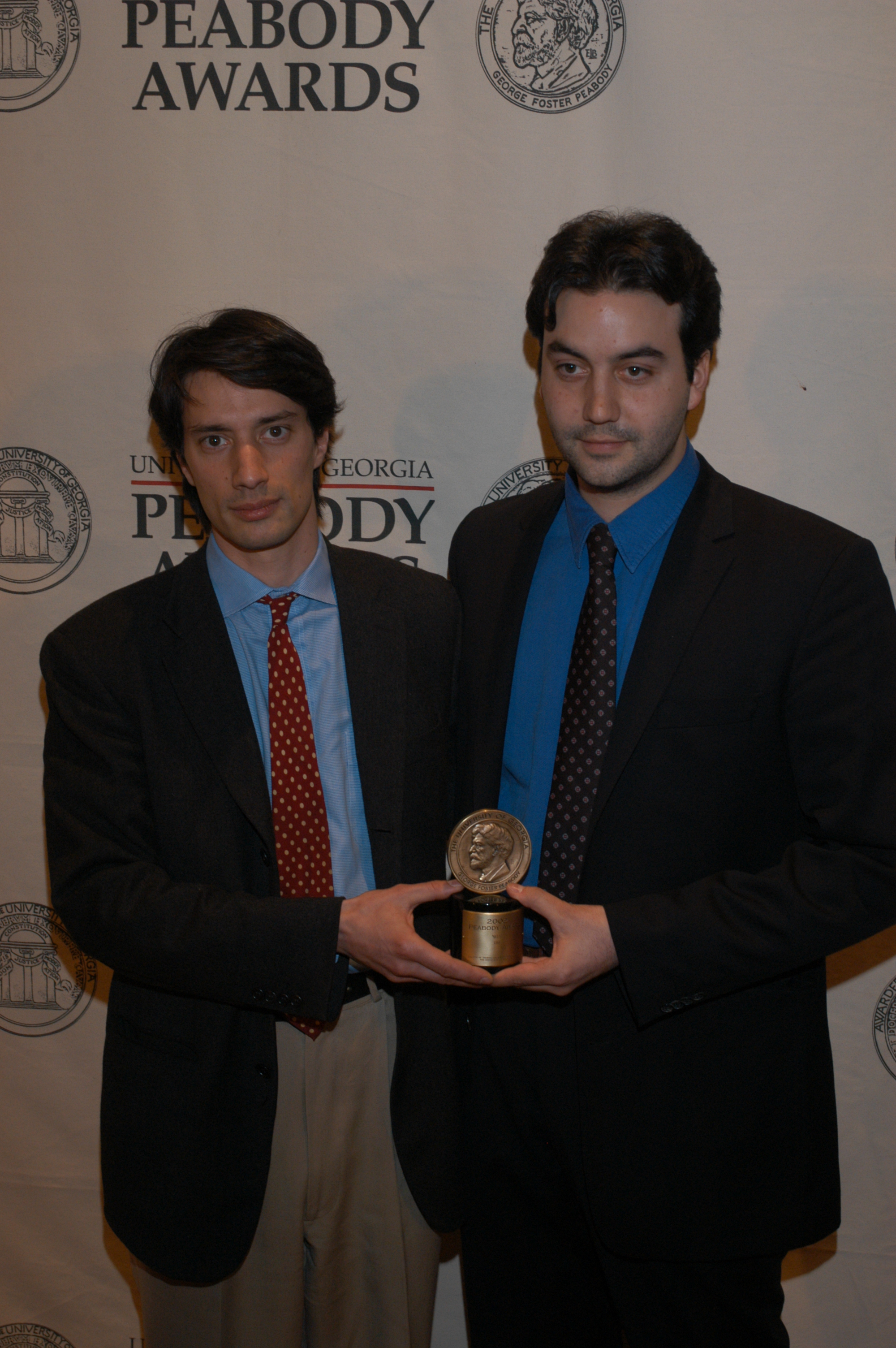 PHOTO CREDIT: ANDERS KRUSBERG / PEABODY AWARDS Gédéon Naudet and Jules Naudet at 62nd Annual Peabody Awards Luncheon Waldorf=Astoria Hotel May 19, 2003